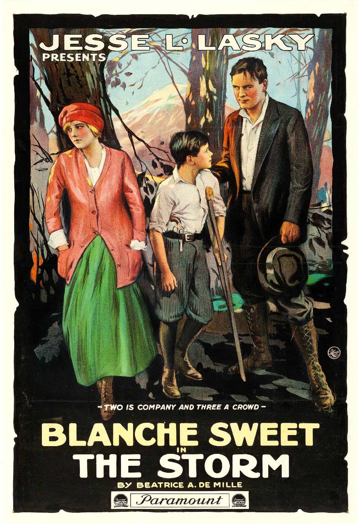 Poster for the 1916 film The Storm.